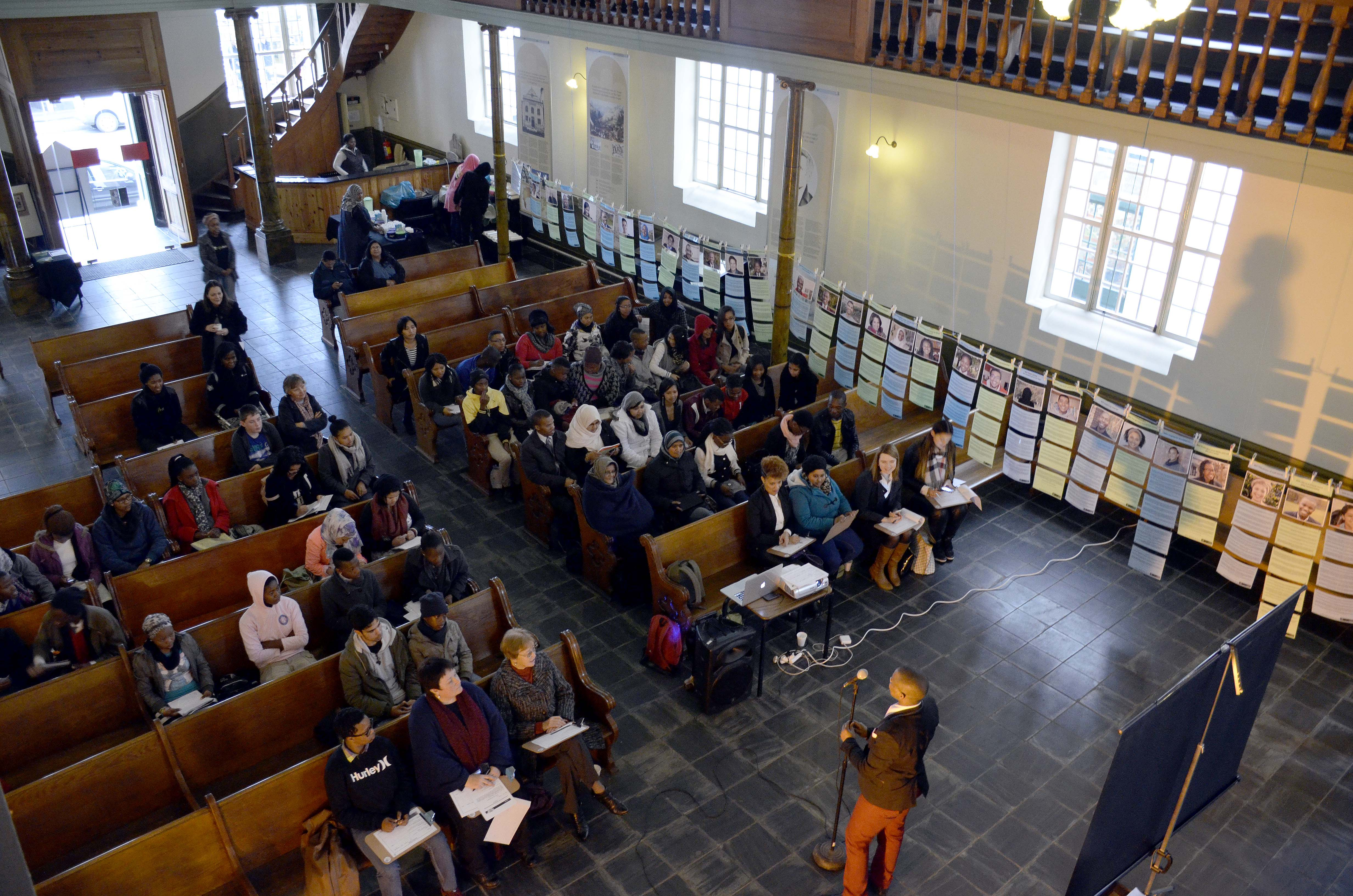 Grade 11s discussing the positives of 20 years of democracy